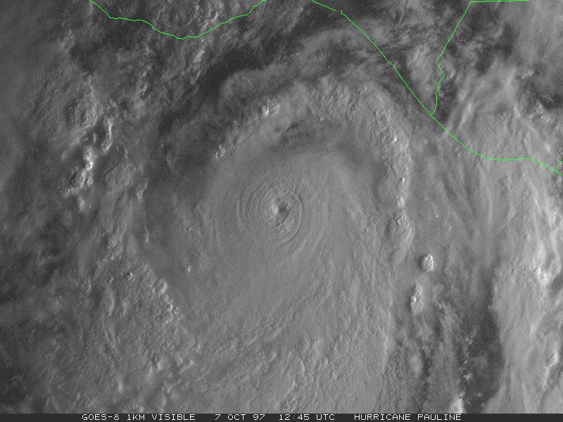 Hurricane Pauline near peak intensity on October 7, 1997